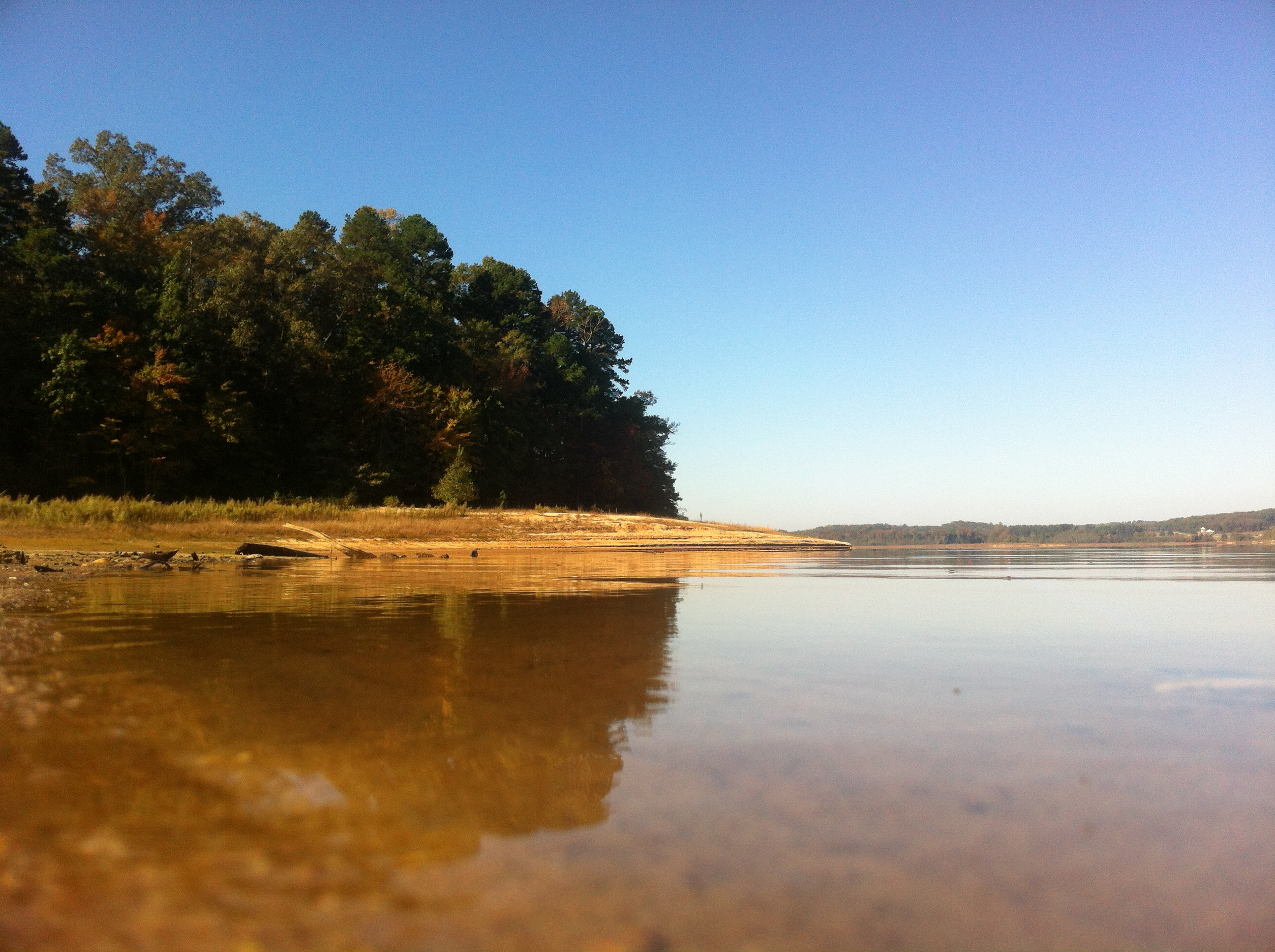 This is a view of Clemson Experimental Forest from Lake Hartwell.